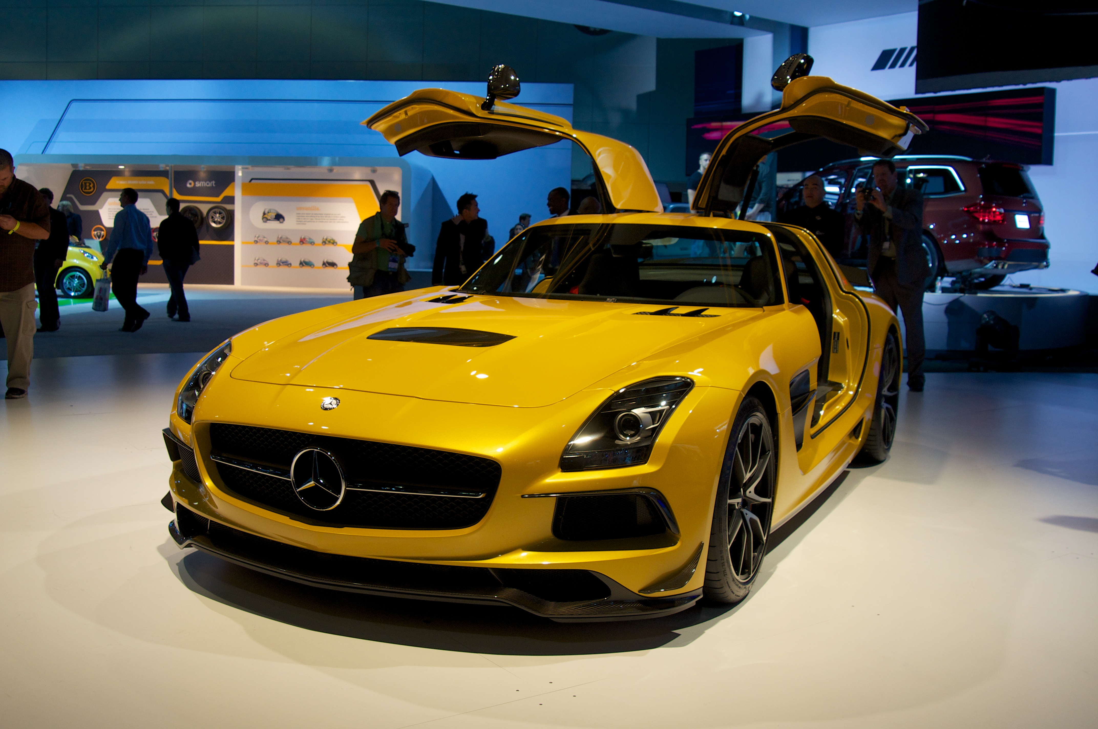 Seen at the 2012 Los Angeles Auto Show. Press day - Wednesday, November 28th. If you use one of my photos, please be so kind as to attribute me and link back to the photo's page. THANK YOU!